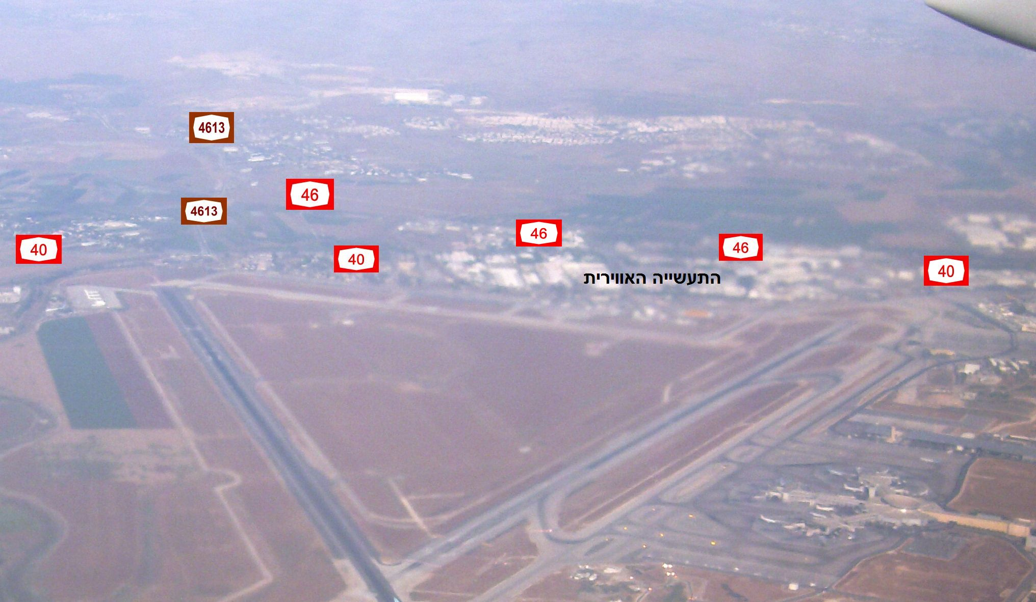 Ben Gurion Airport's Runways, as seen from an incoming flight. There is an aircraft seen taxiing on the runway. This incoming Delta flight from Atlanta, GA circled around the airport and landed on the NW runway, approaching from the east